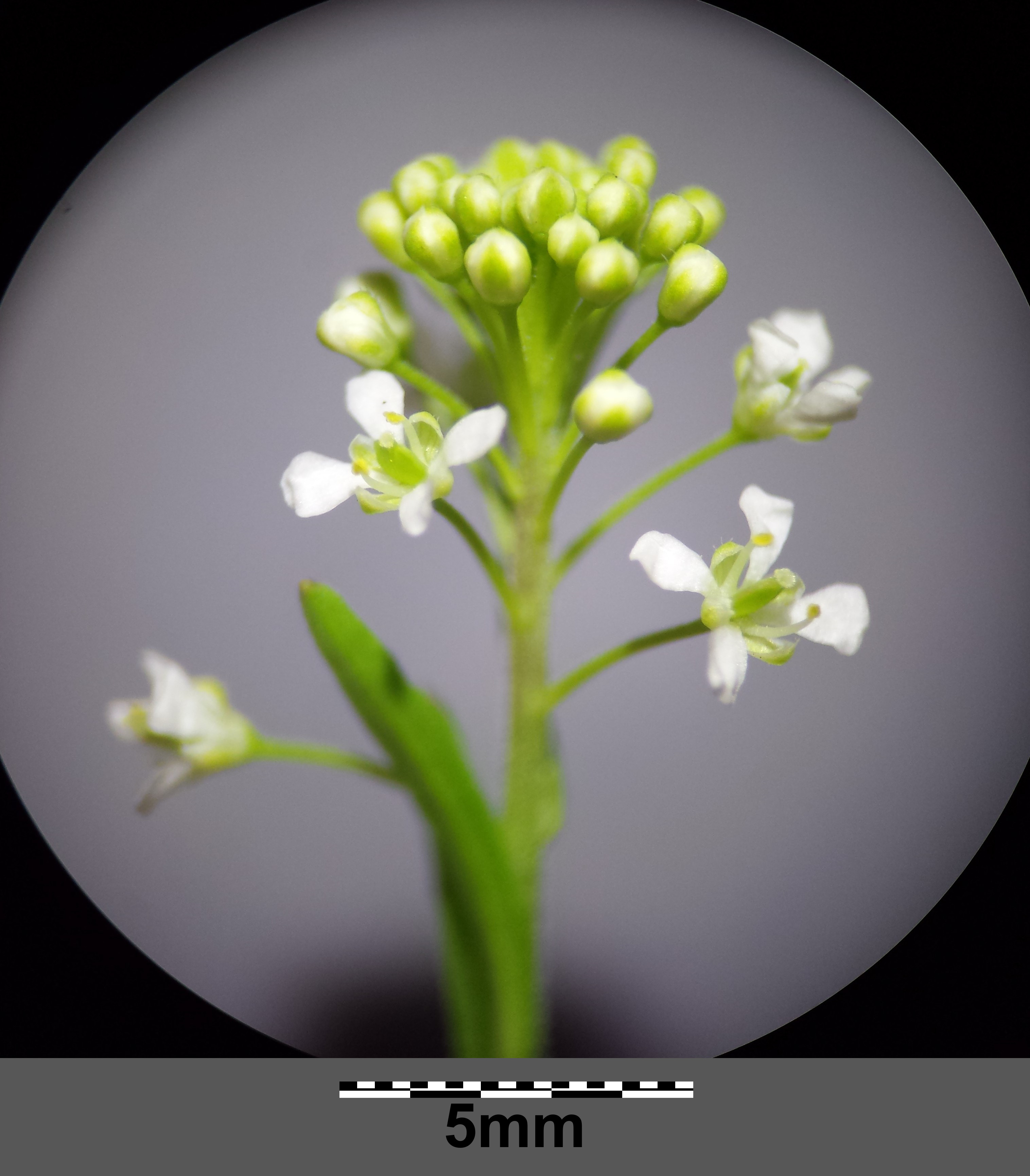 Inflorescence Taxonym: Lepidium virginicum (subsp. virginicum) ss Fischer et al. EfÖLS 2008 ISBN 978-3-85474-187-9 Location: Jedlersdorf rail station, Vienna-Floridsdorf - ca. 160 m a.s.l. Habitat: sandy area